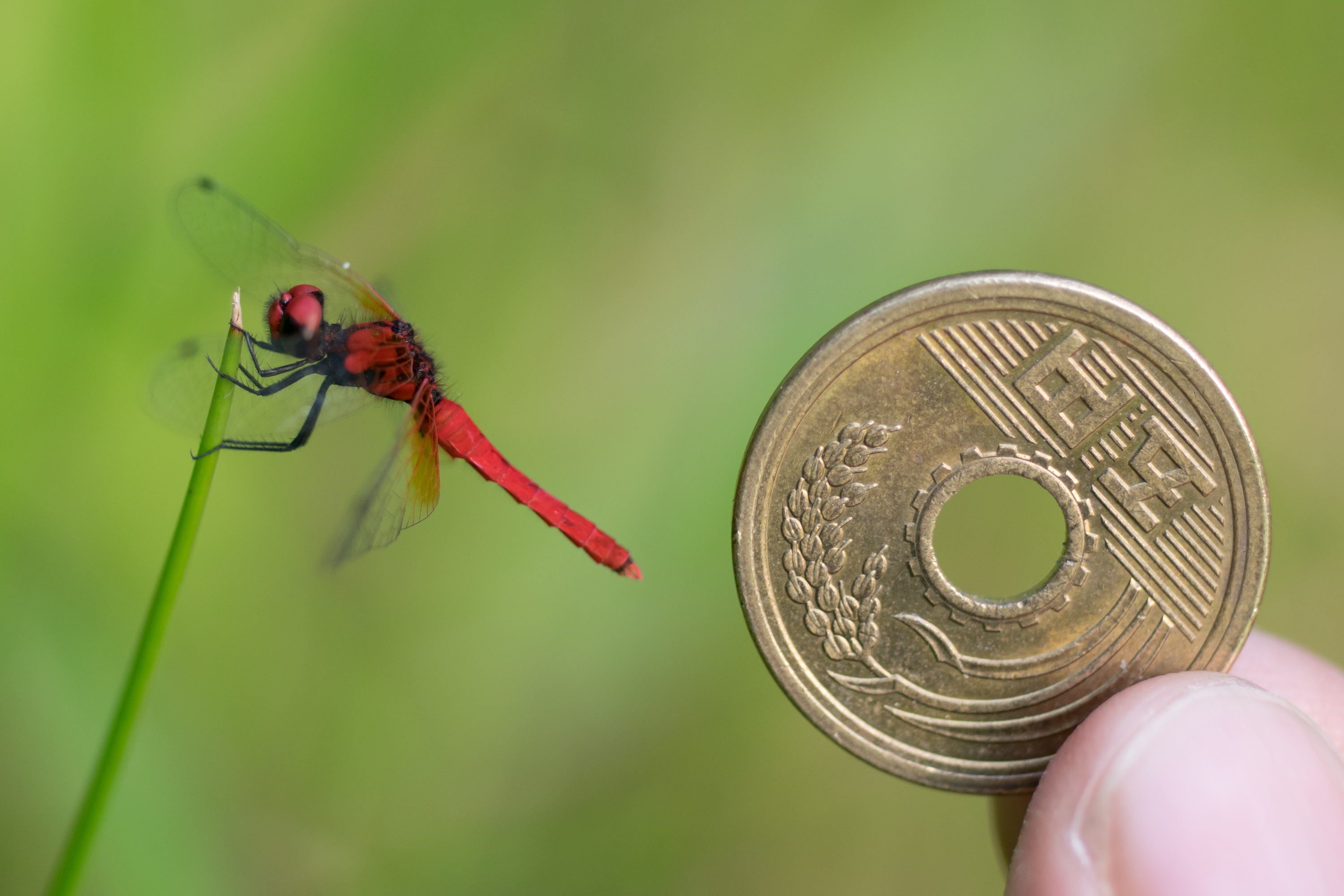 A male of Scarlet Dwarf (Nannophya pygmaea), and 5 yen coin(Diameter 22mm, Center hole diameter 5mm). Aichi, Japan.